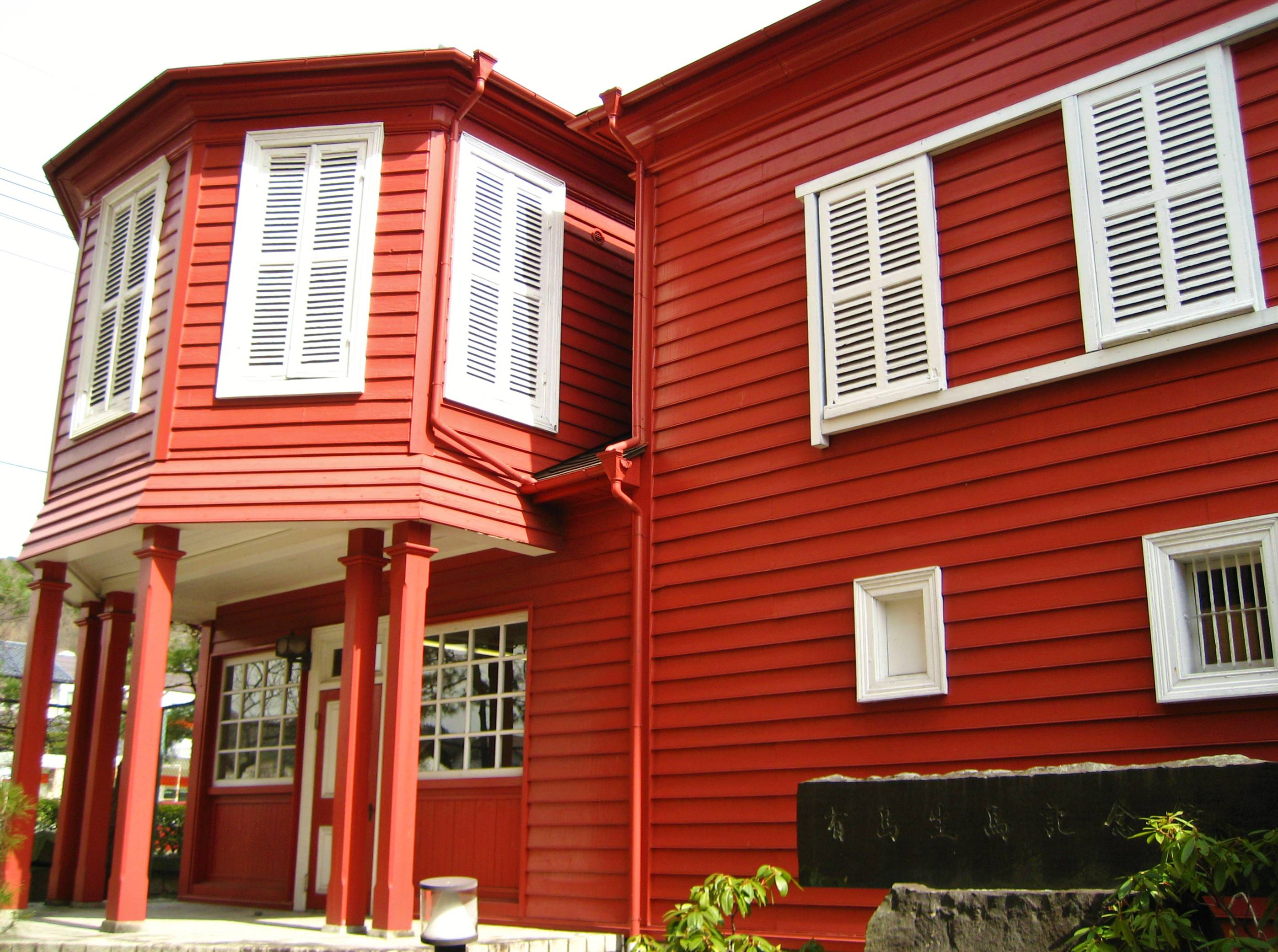 Arishima Ikuma Memorial Museum.